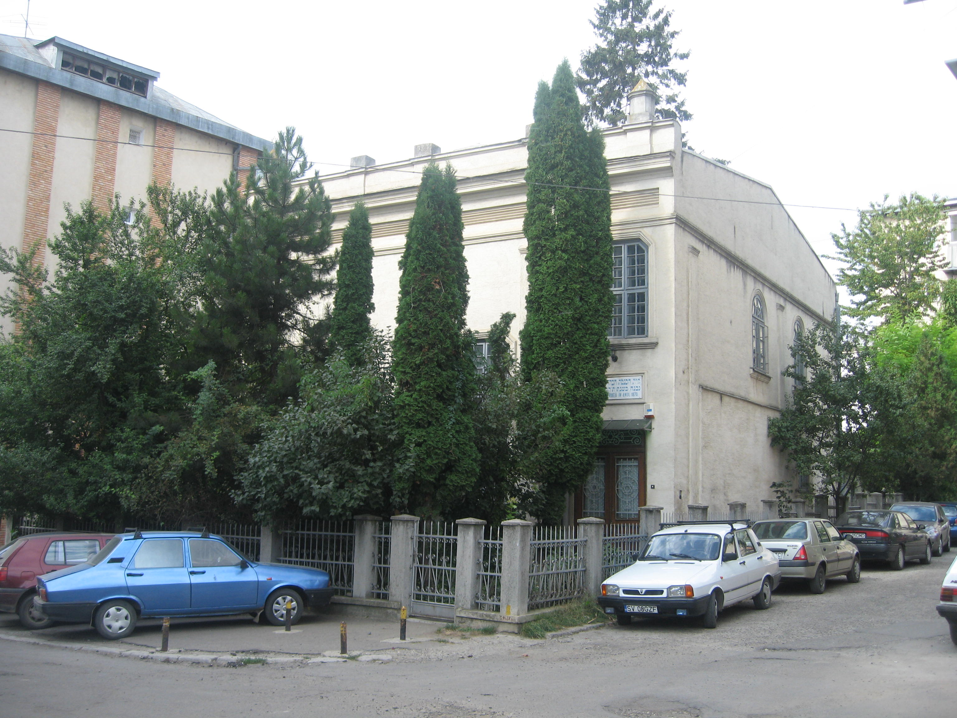 Gah Synagogue in Suceava.